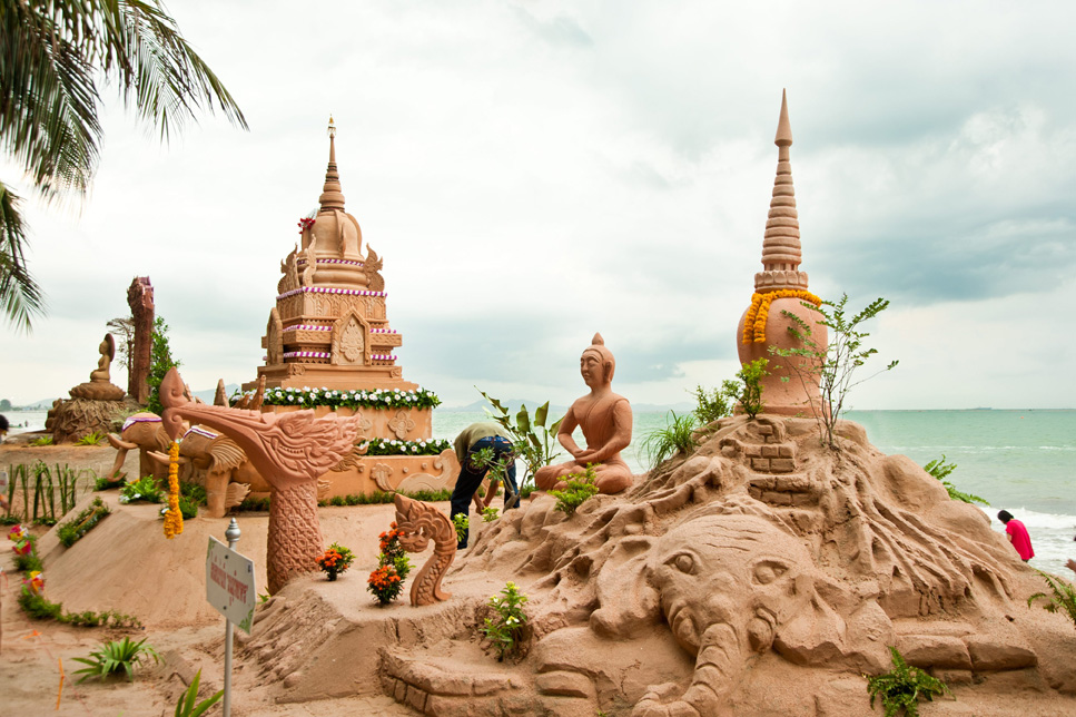 Sand Create Festival